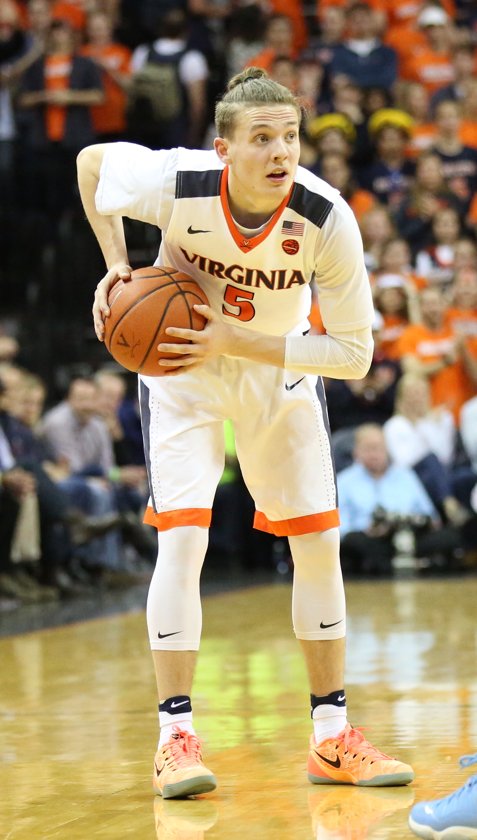 Kyle Guy of UVA